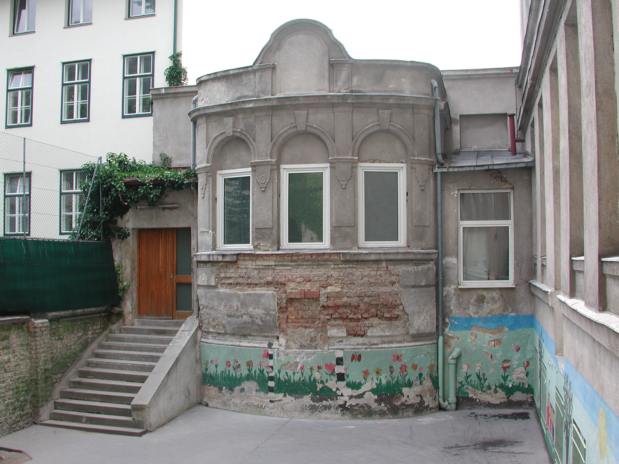 Courtyard view former synagogue building (Malzgasse 16 Vienna)